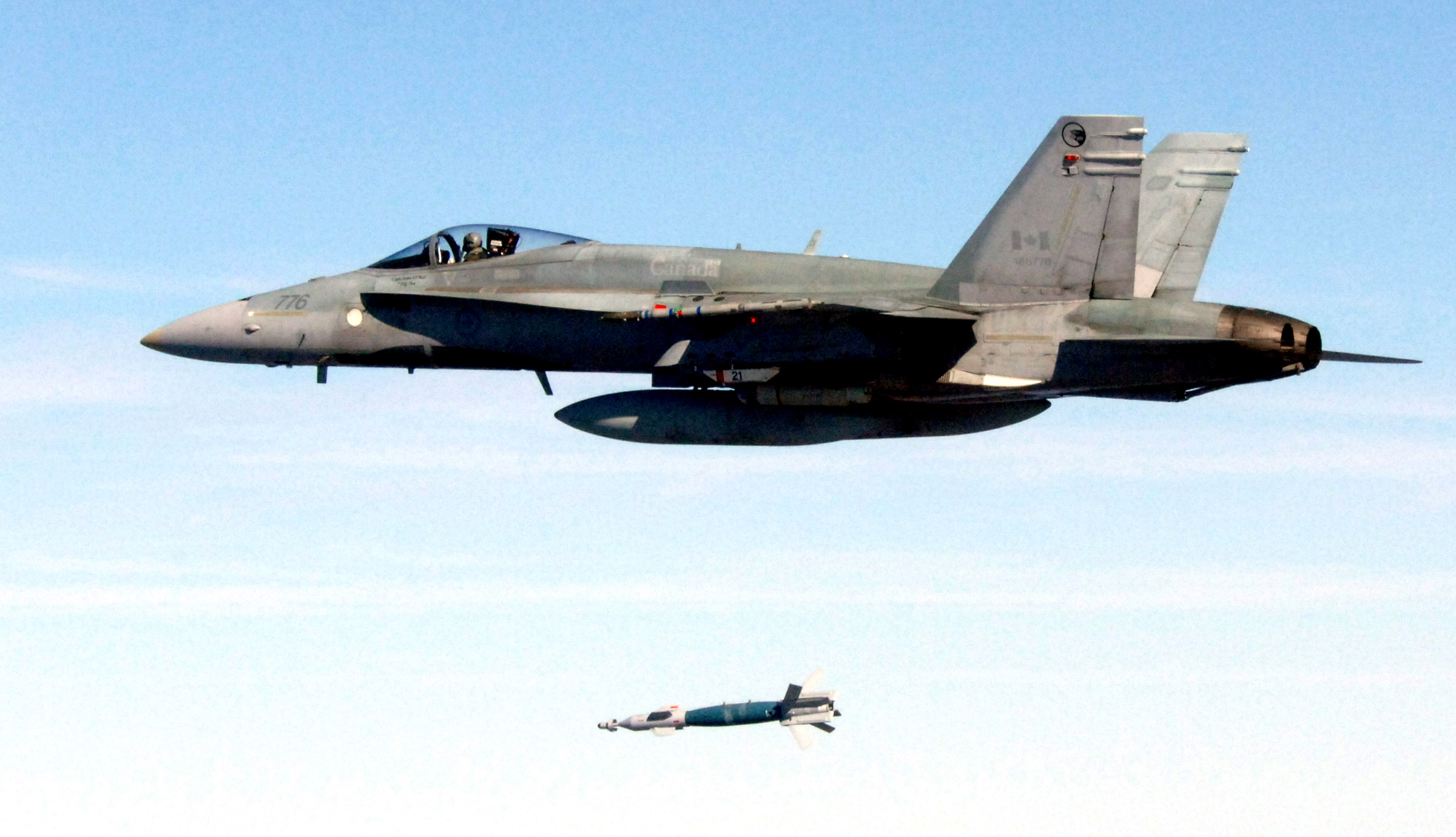 A Canadian CF-18A Hornet from the 409th Squadron at Cold Lake, Alberta (Canada), launches a laser-guided bomb at Eglin Air Force Base, Florida (USA), on 5 December 2006.